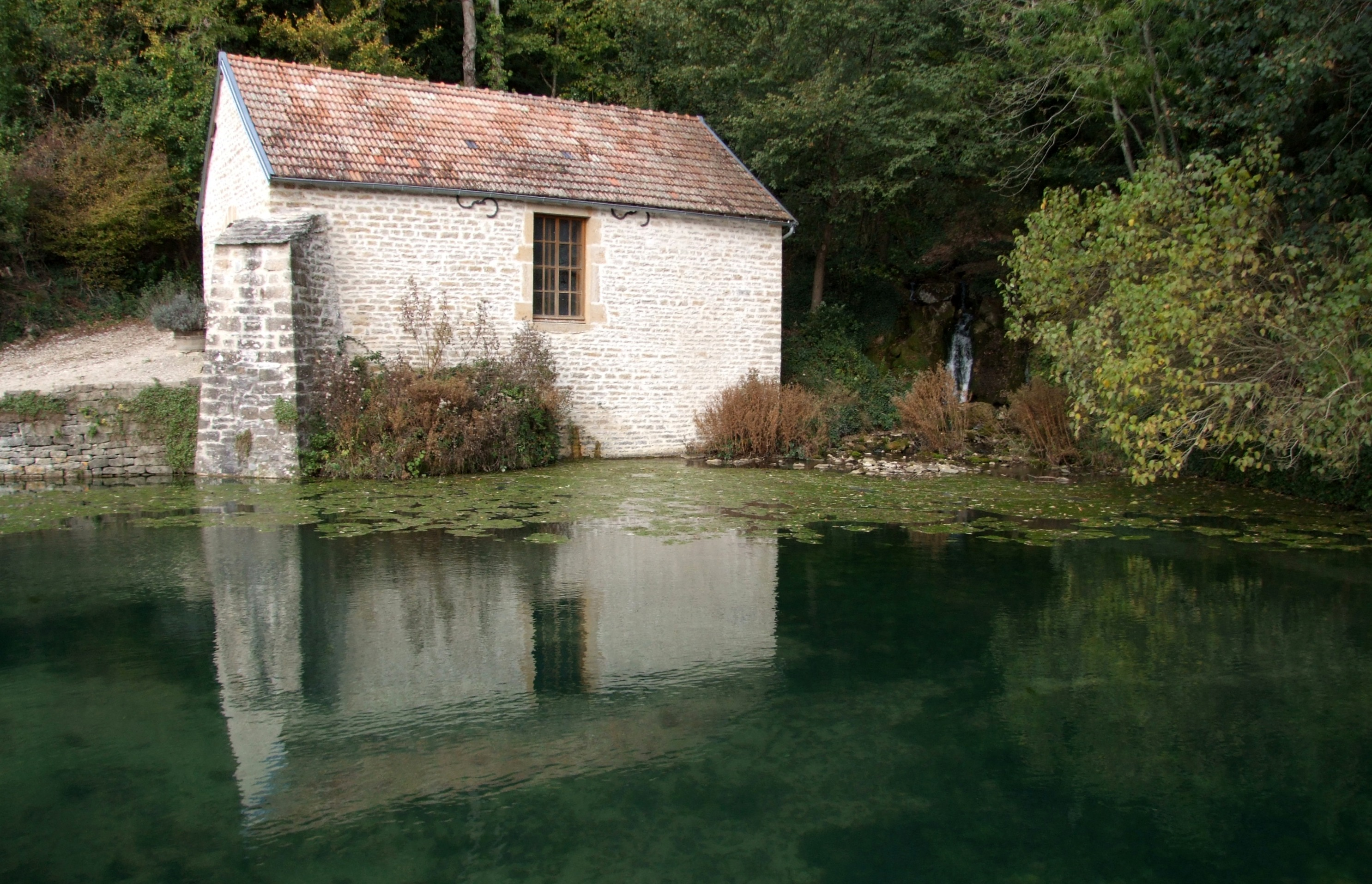 Baulme-la-Roche, Burgundy, FRANCE